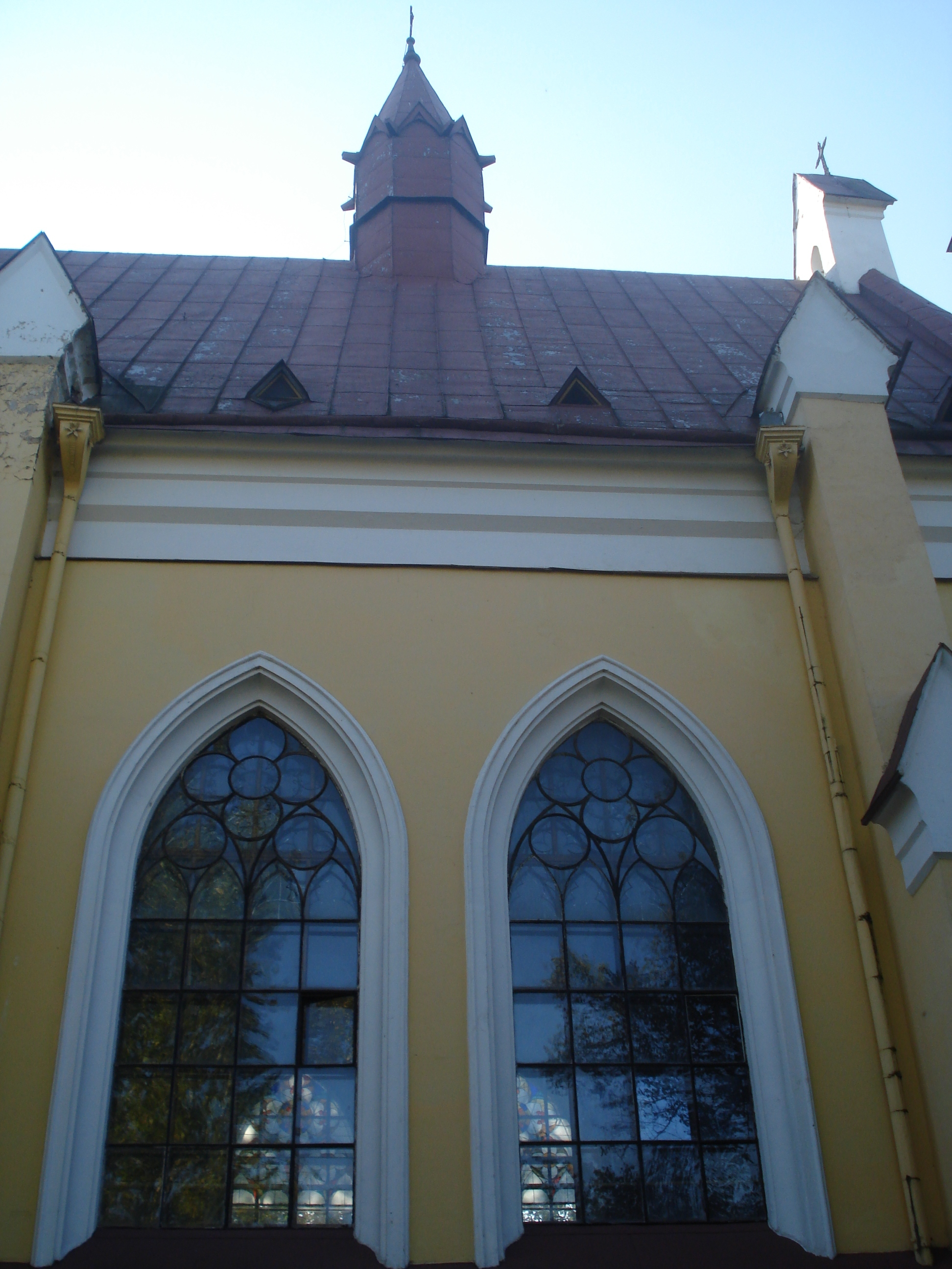 Church of the Providence of God in Vilnius (Костёл Божия Провидения; Dievo Apvaizdos bažnyčia, Gerosios Vilties g. 17). Side view